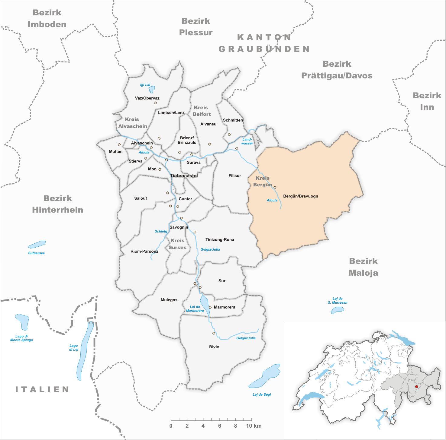 Municipality Bergün/Bravuogn